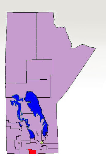 The boundaries of the provincial Pembina electoral district in 2007 highlighted in red